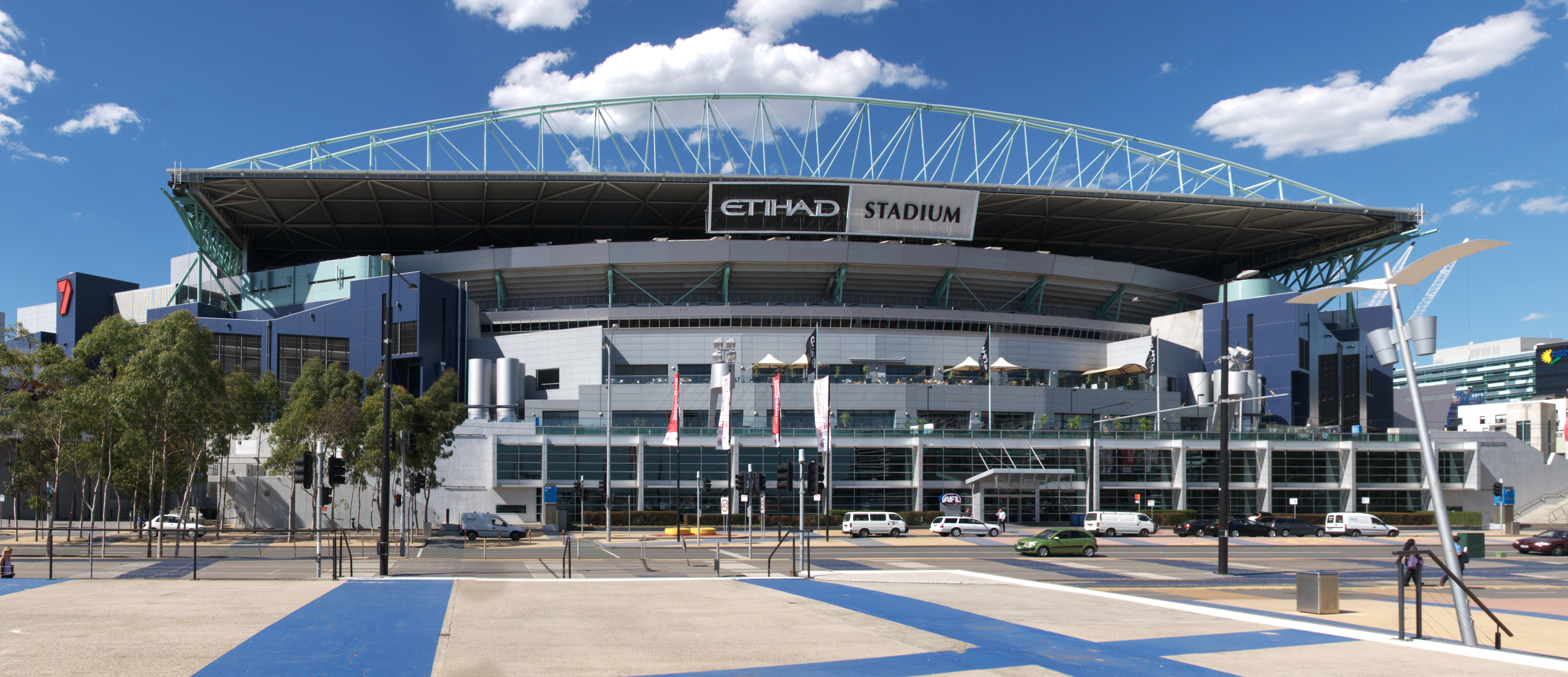 A view of the Docklands Stadium, currently known as Etihad Stadium, in Melbourne, Australia as seen from the Docklands waterfront.